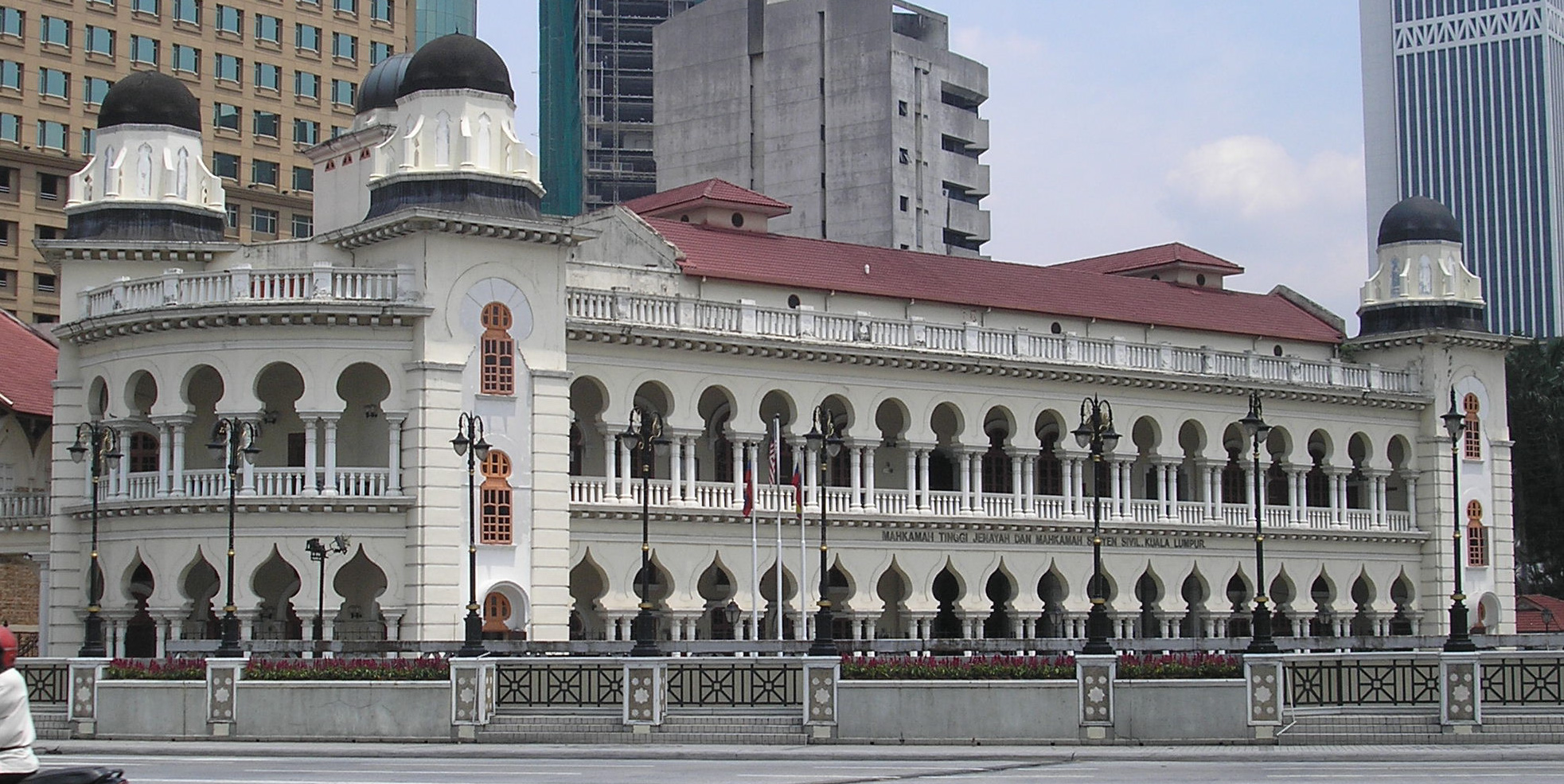 The Old High Court Building (Mahkamah Tinggi Kuala Lumpur), Merdeka Square, Kuala Lumpur, Malaysia.